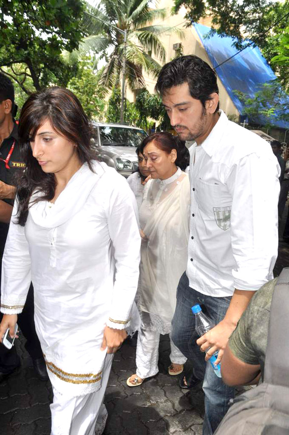 Shaad Randhawa visits Dara Singh's home